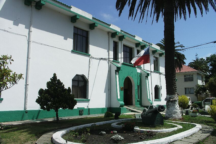 Constitucion, Chile